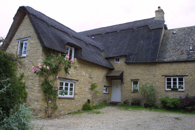 Dore's Cottage, 17 High Street, Finstock, Oxfordshire. Formerly the village shop and sub-post-office.